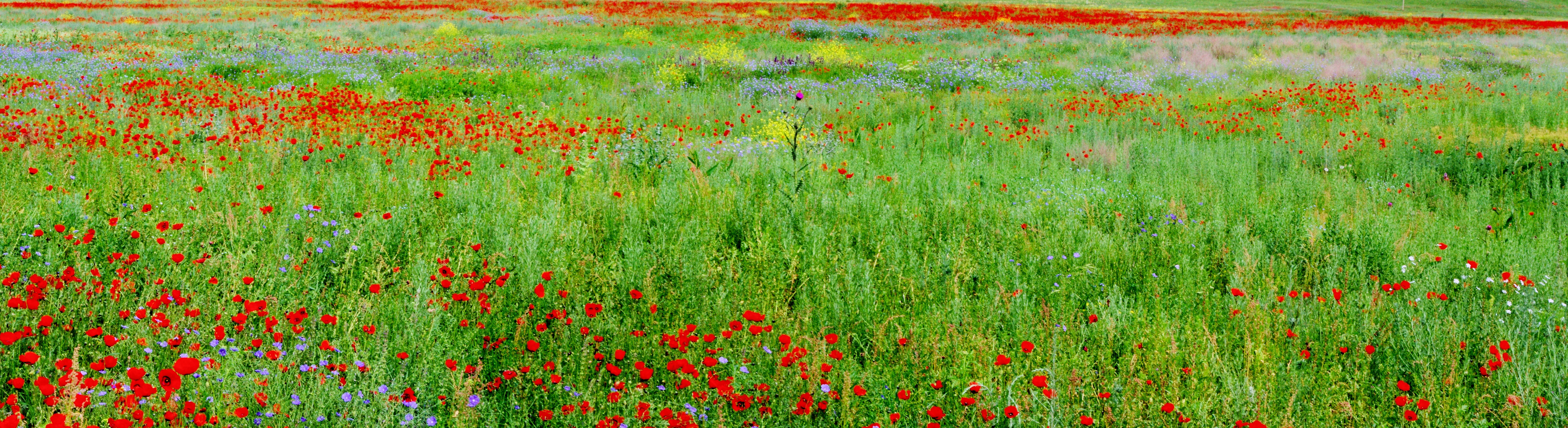 Imagine scenes such as this stretching on mile after mile and you can get an idea of the spectacular display of wildflowers that covers the southern steppe in springtime.